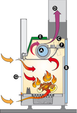 heating fireplace